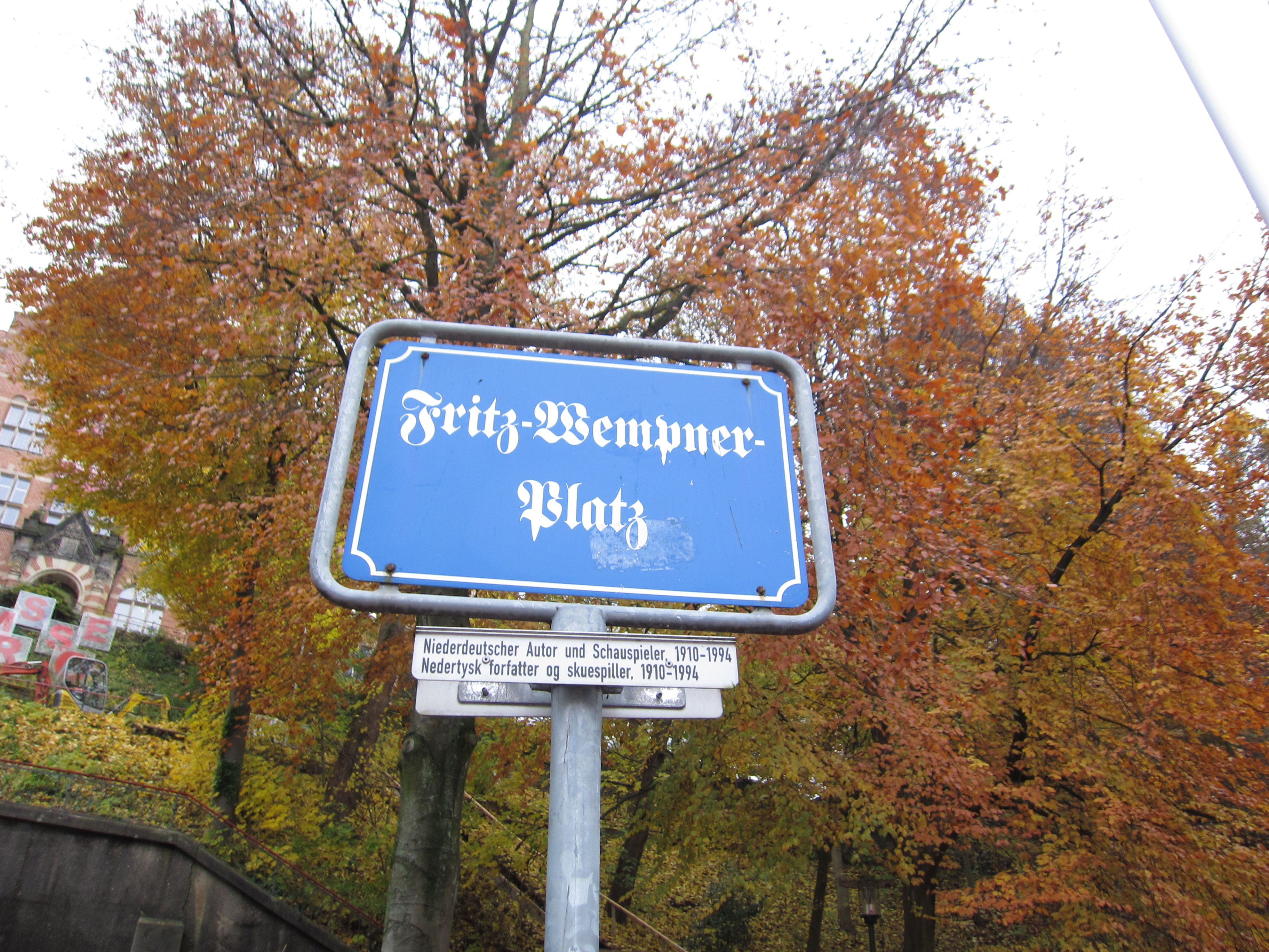 Street sign "Fritz-Wempner-Platz" in Flensburg